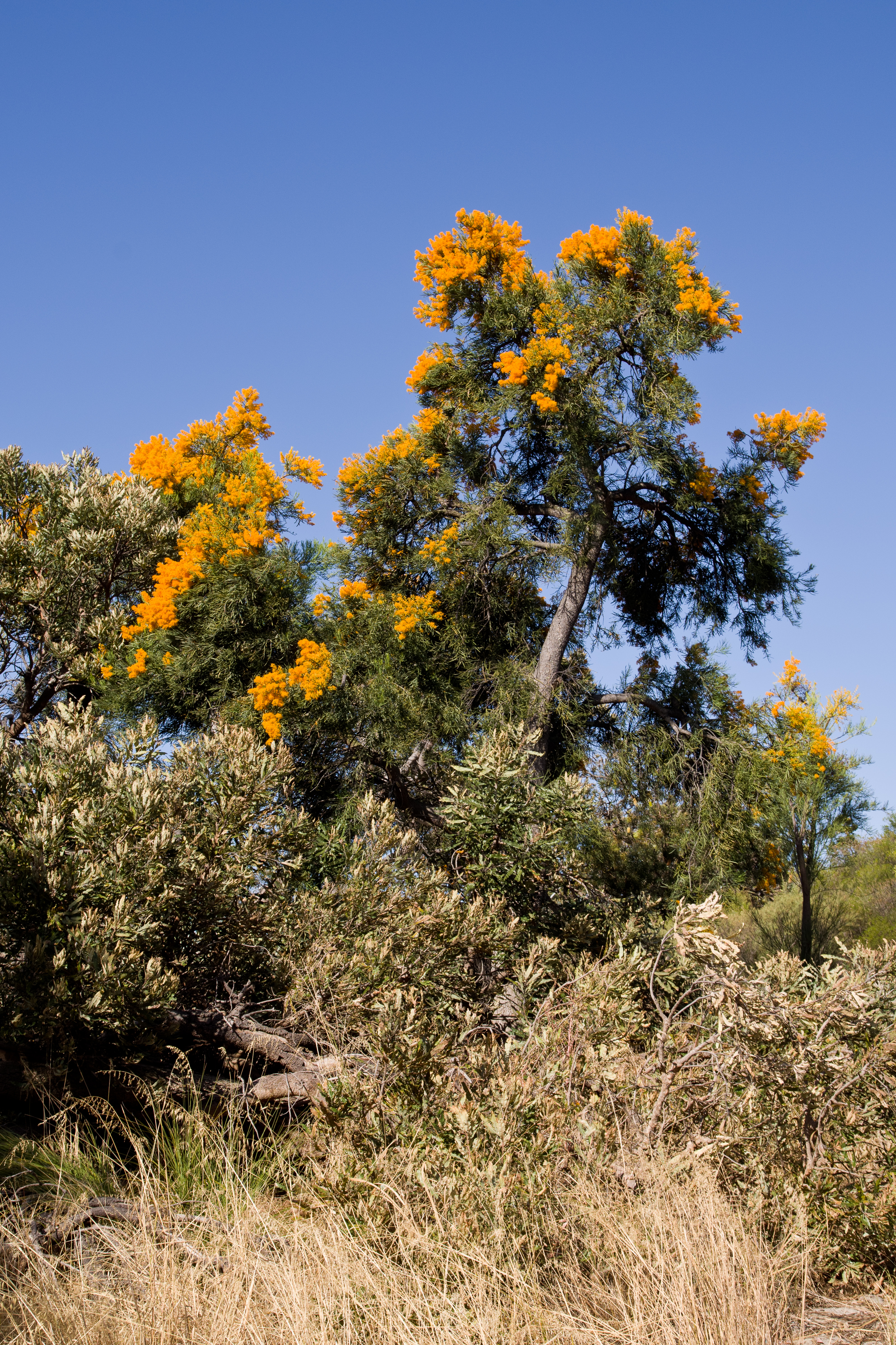 Beeliar Regional Park moodjars, christmas tree or Nuytsia floribunda